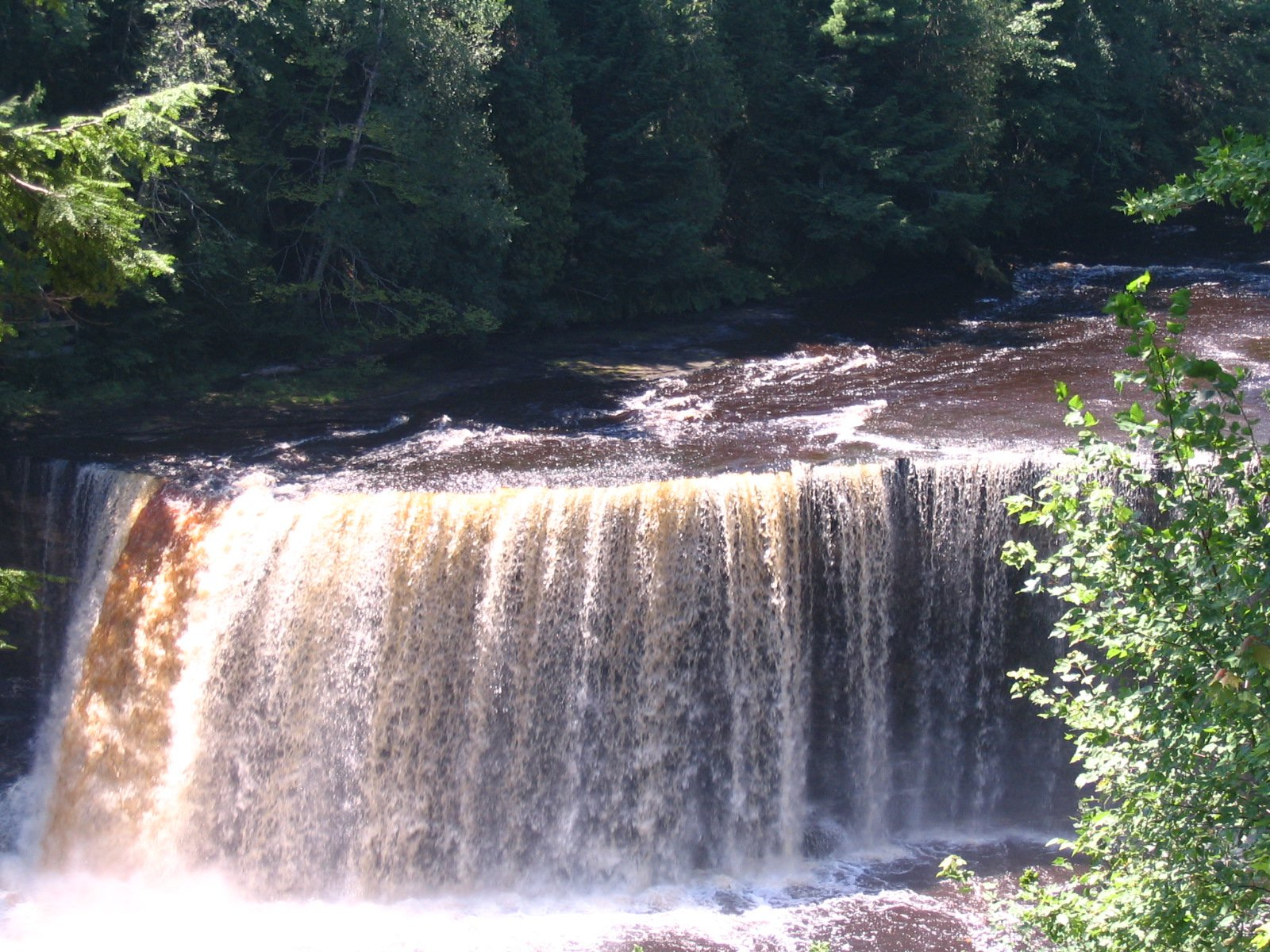 A photo of the Tahquamenon Falls in Michigan taken in July of 2010.